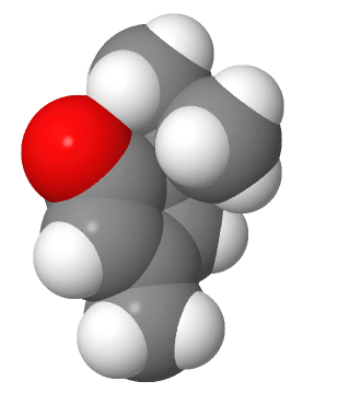 Spacefilling model of Umbellulone